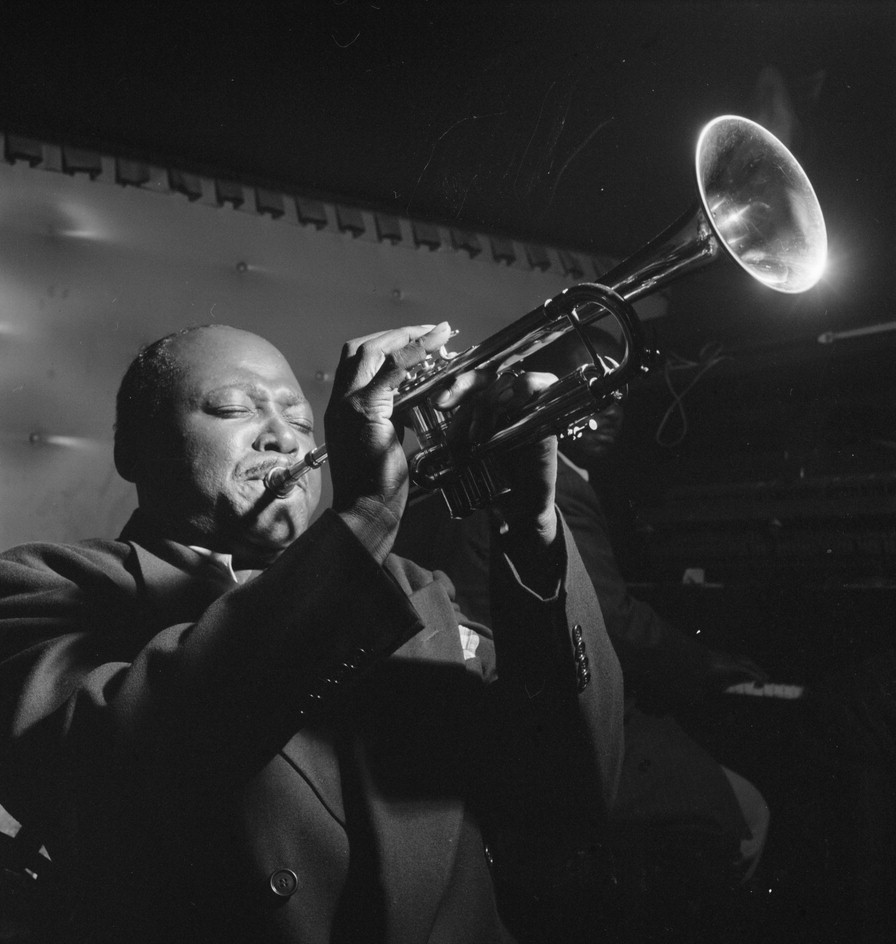 Sidney De Paris, Jimmy Ryan's (Club), New York, N.Y., ca. July 1947 (Photograph by William P. Gottlieb)